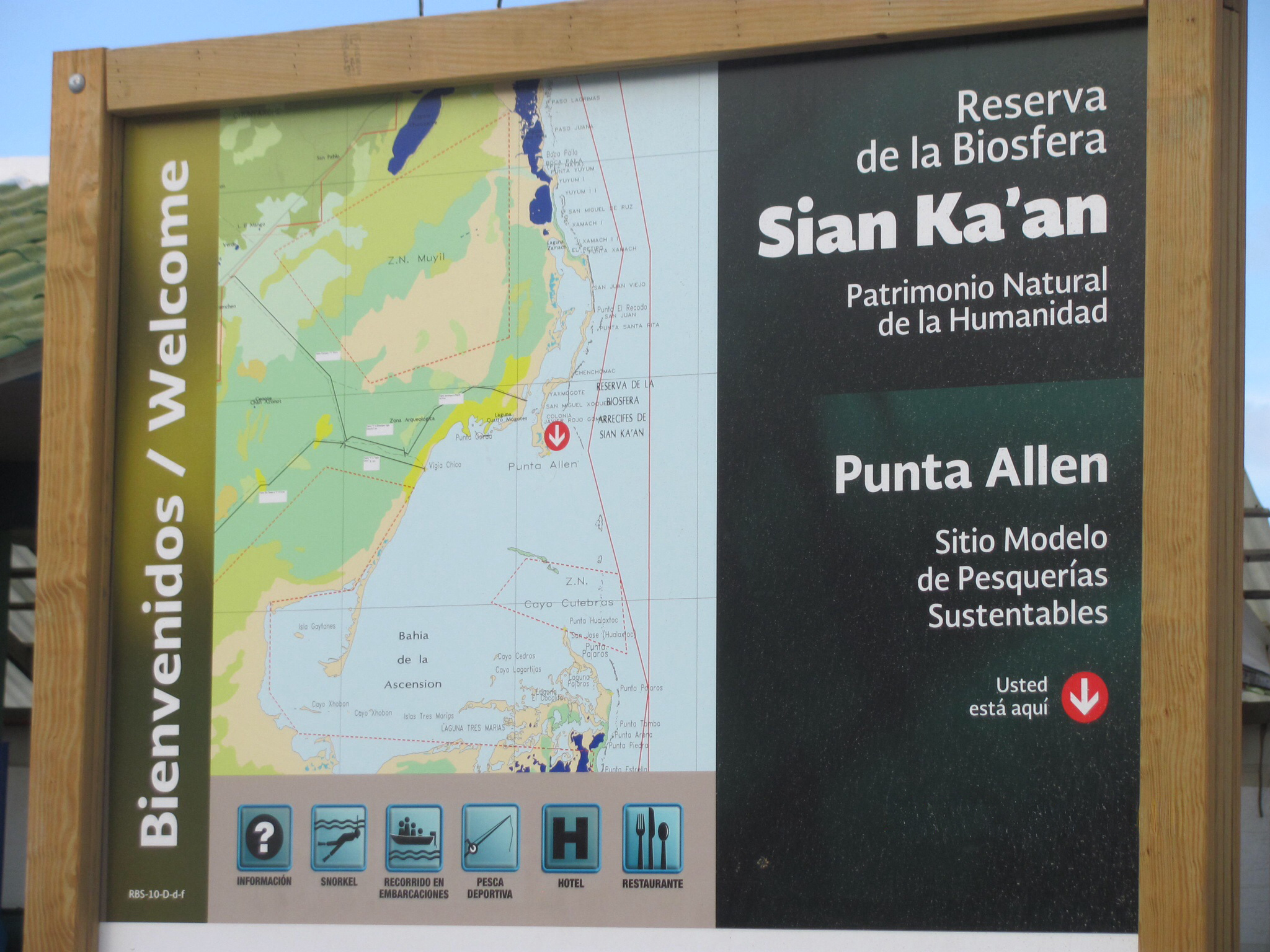 Punta Allen, Sian Ka'an QROO